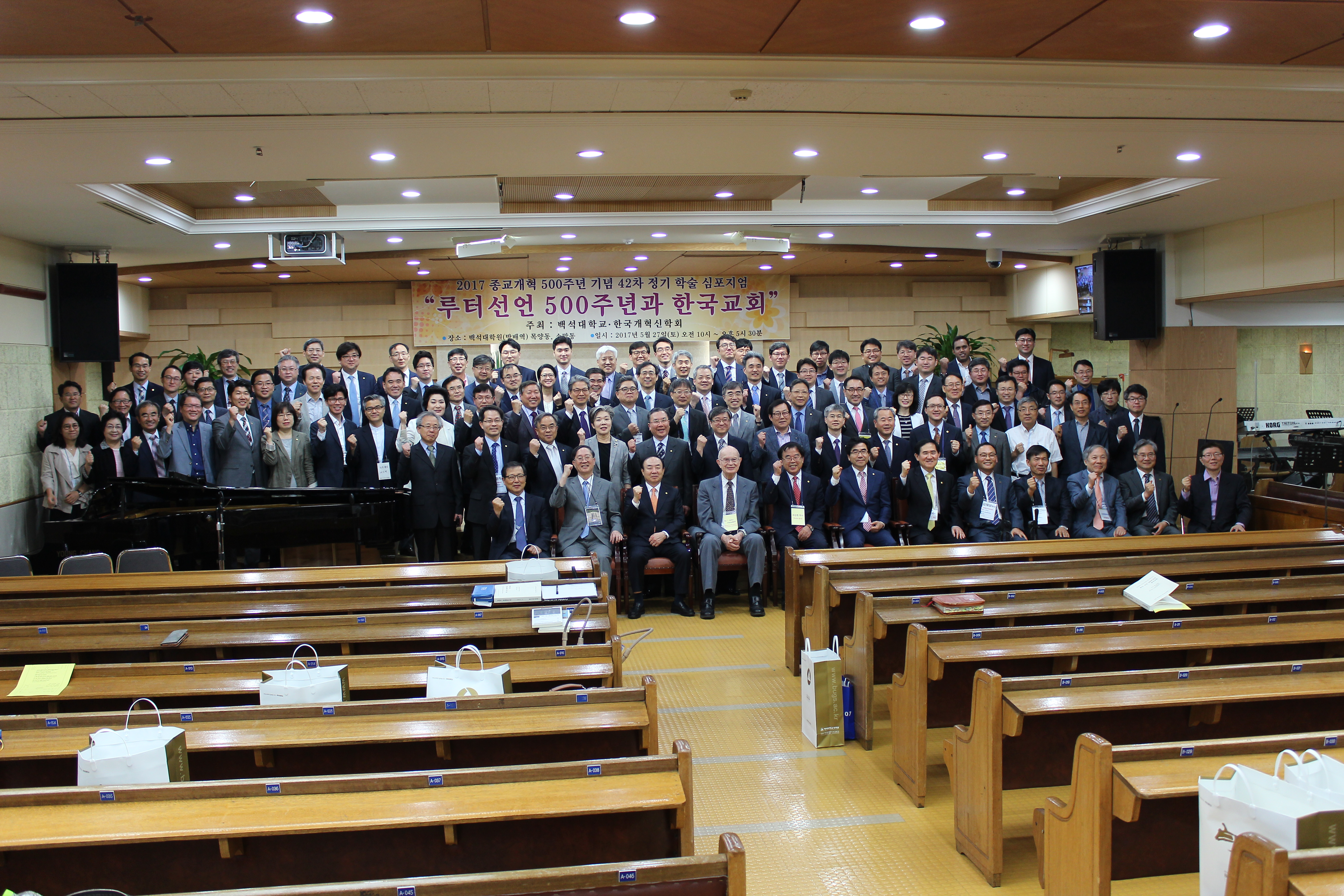 Conference of Korea Reformed Theological Society for 500th Reformation Day, Baeksuk University, 26th May 2017